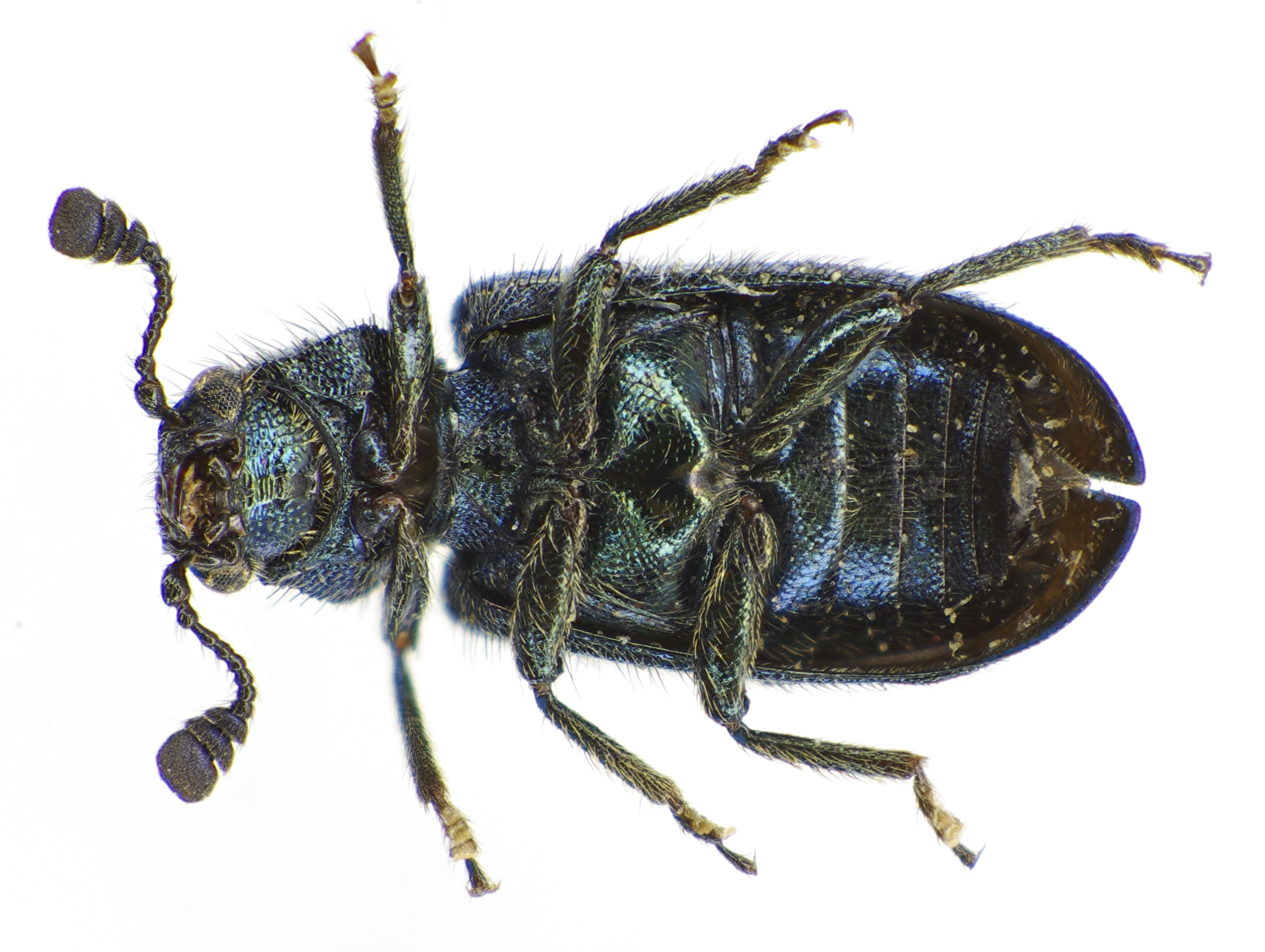 Necrobia violacea from Hungary Villány-mountains at 2012-05-05